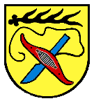 Coat of arms of Sontheim in Heroldstatt